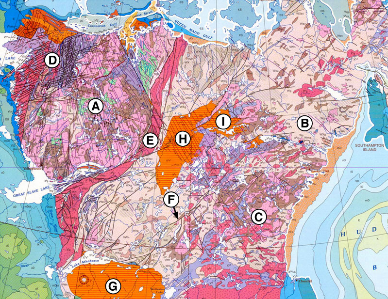 Major provinces characterized by Archean and Proterozoic rocks with different tectonic histories. These include: Cratons: A Slave Province B Rae Province C Hearne Province Orogenic belts: D Wopmay Orogen E Taltson-Thelon Orogen F Snowbird Tectonic Zone Basins: G Athabasca Basin H Thelon Basin I Baker Basin